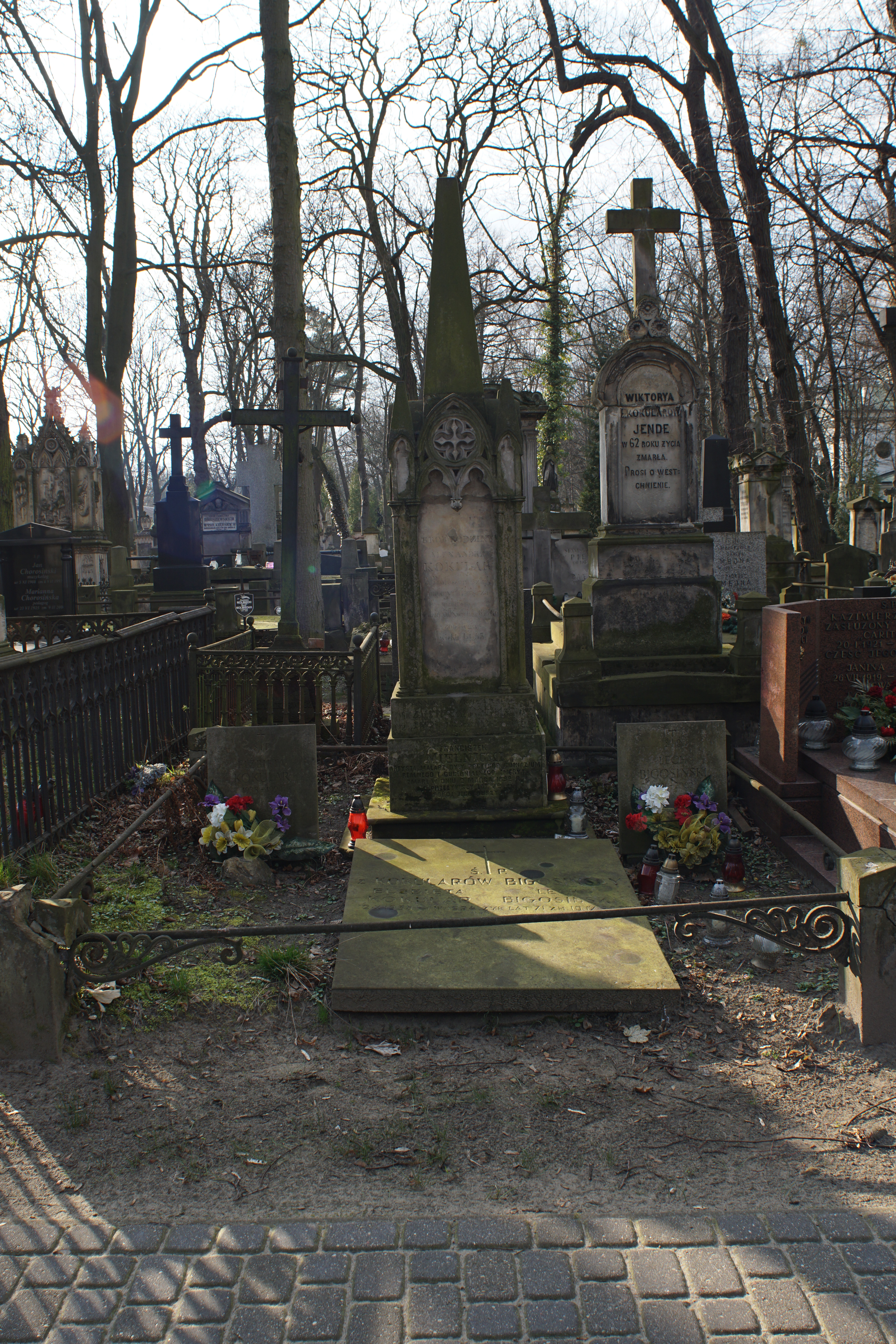 The grave of Aleksander Kokular at the Powązki Cemetery (section 2, row 1, grave 11, 12)